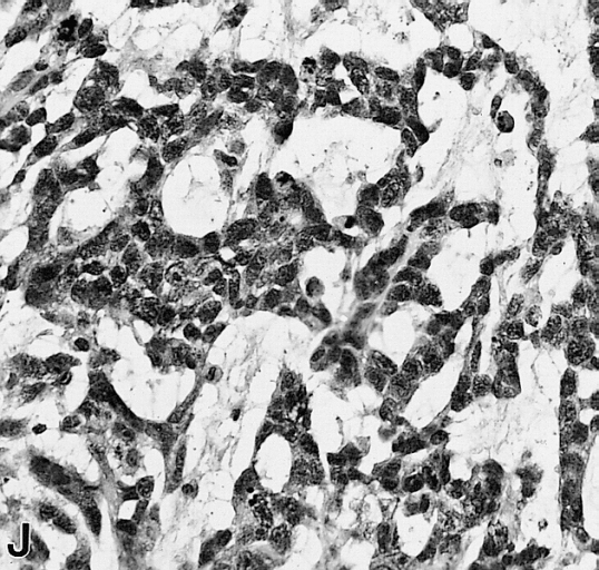 CNS: GLIOBLASTOMA MULTIFORME: VARIATIONS IN HISTOLOGIC APPEARANCE The panels illustrate the great histologic and cytologic variation in this most common primary brain tumor. Glandular and ribbon-like epithelial structures (J) can also be confused with metastatic carcinoma.